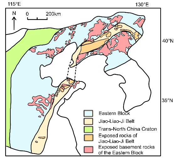 Exposure map of Archean basement rocks and Jiao-Liao-Ji Belt